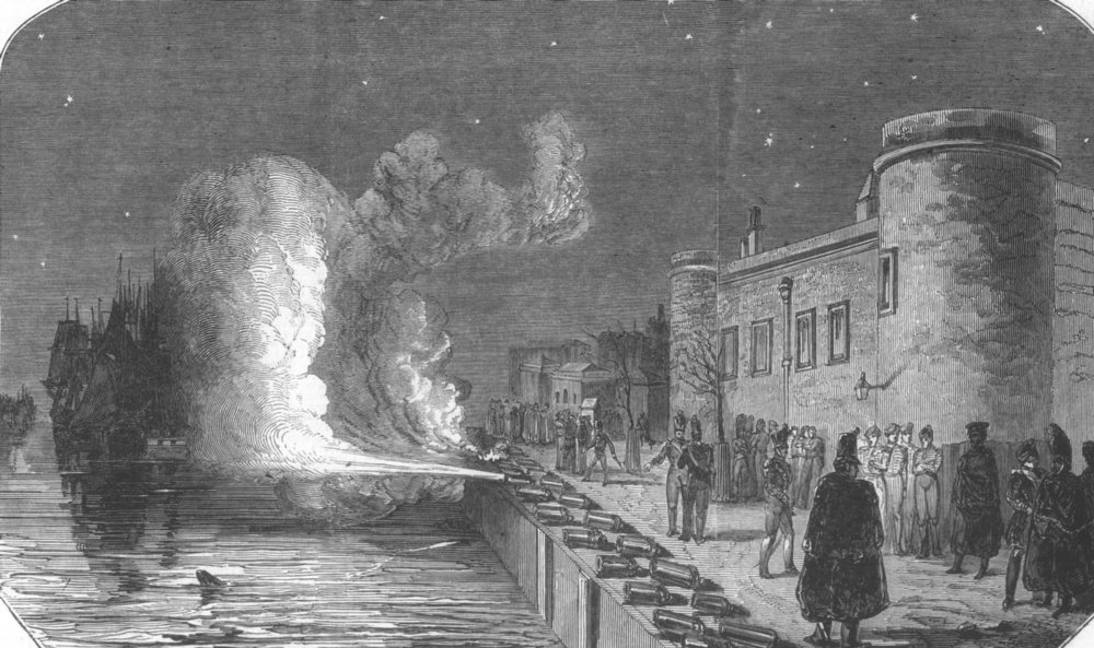 Meanwhile, back in England: "Firing the Tower Guns on Monday night, for the victories in India," from the Illustrated London News, 1846